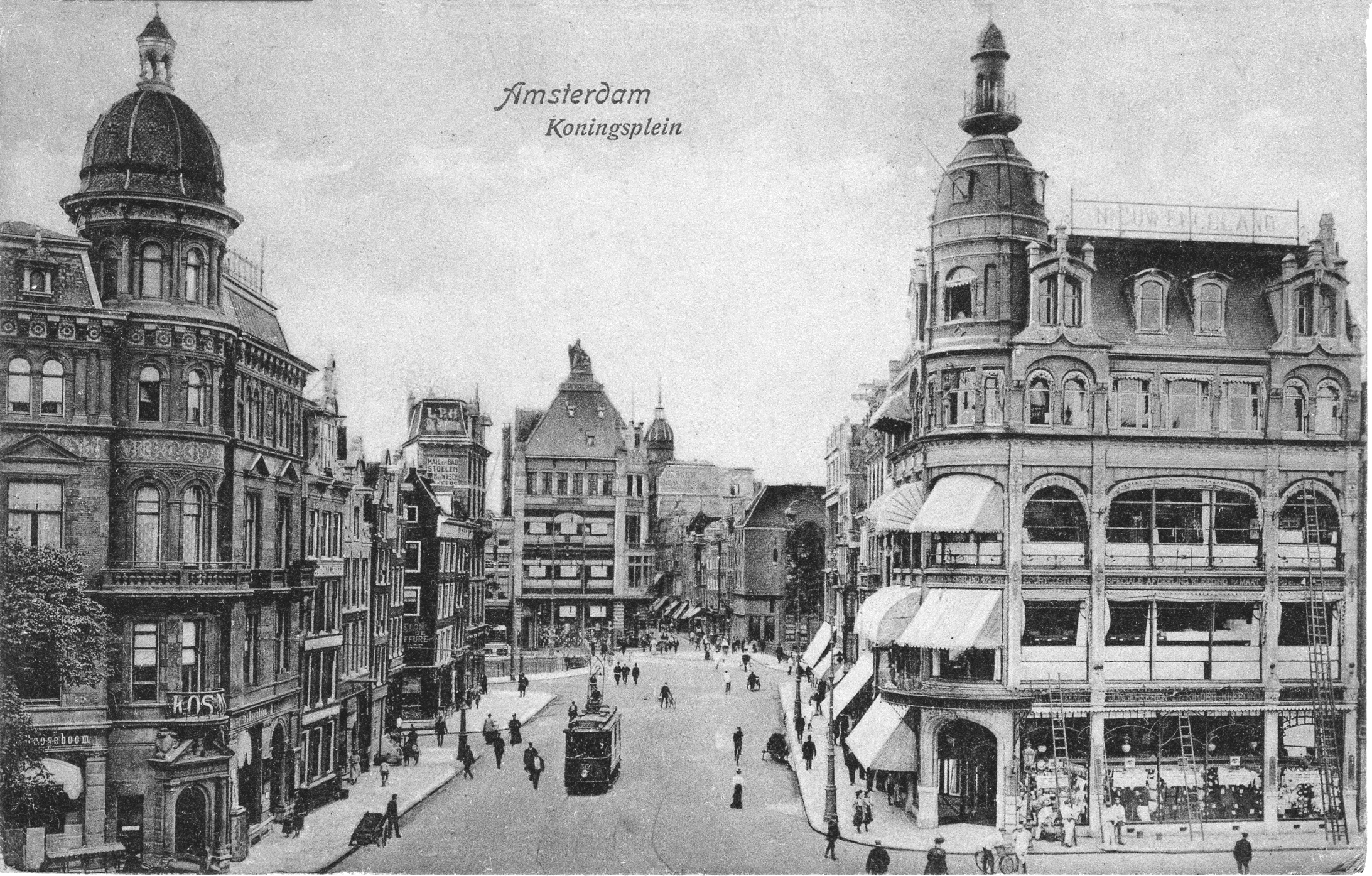 Tram in the Koningsplein. view direction SW.